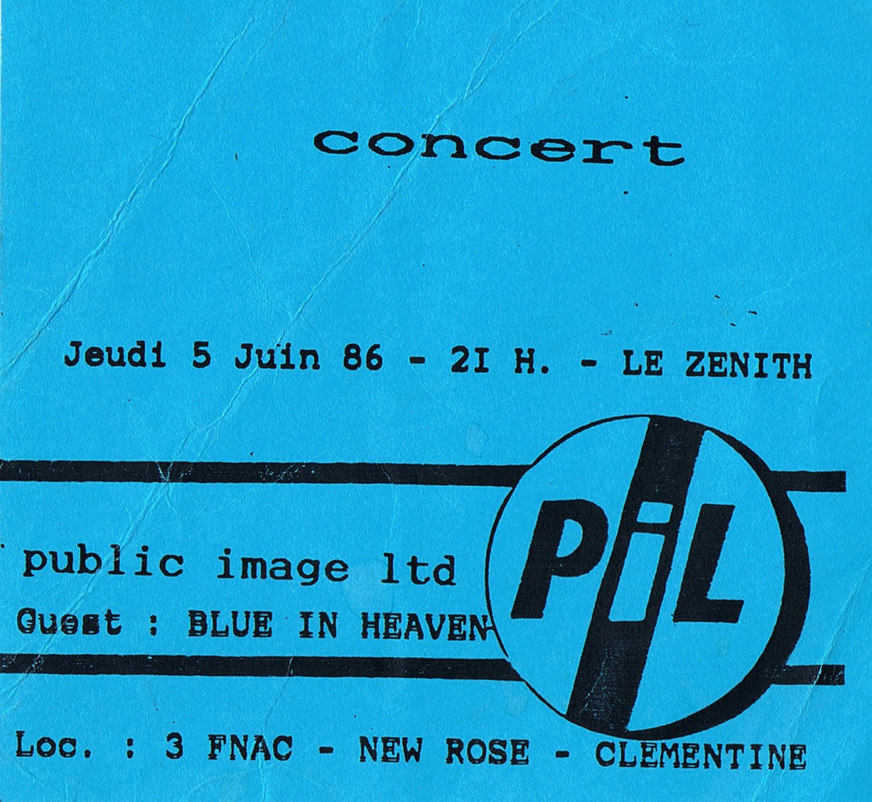 Tickets for the PIL concert at the Zénith in Paris, june 1986